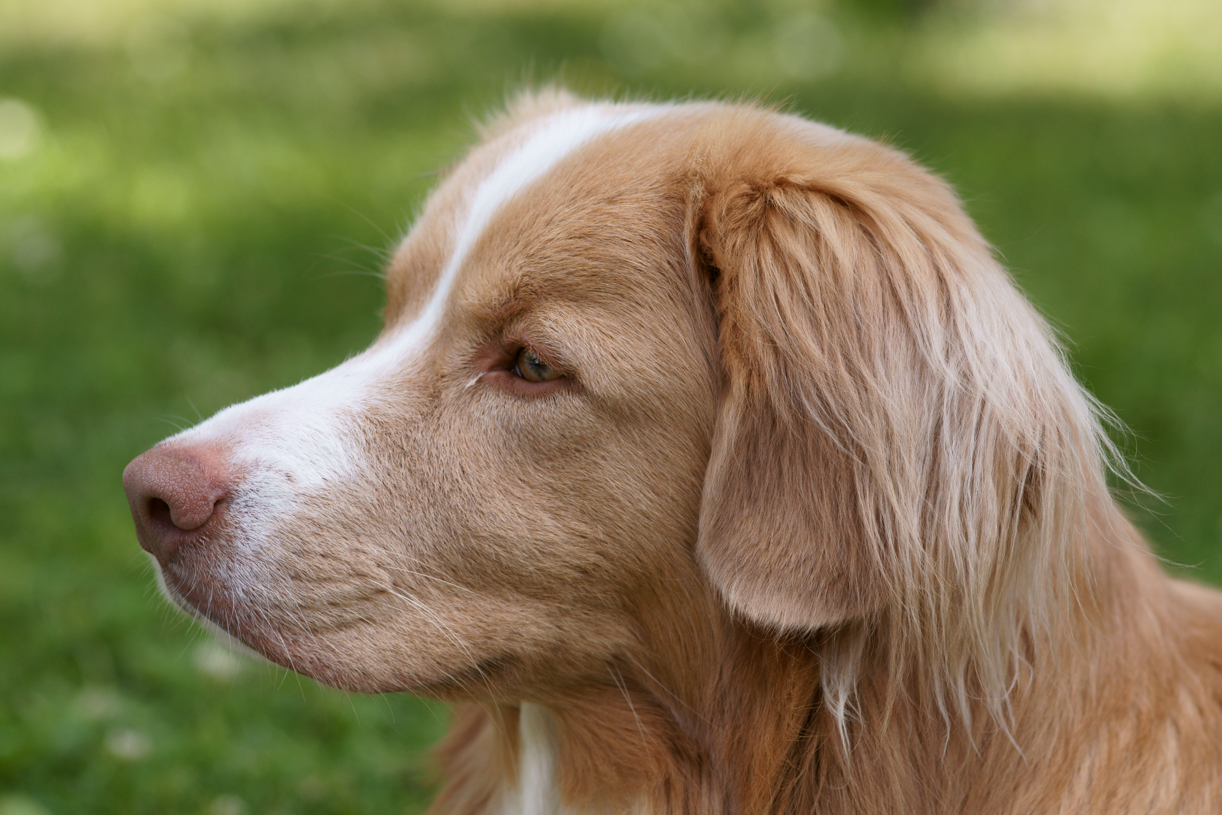 Head of Nova Scotia Duck-Tolling Retriever.